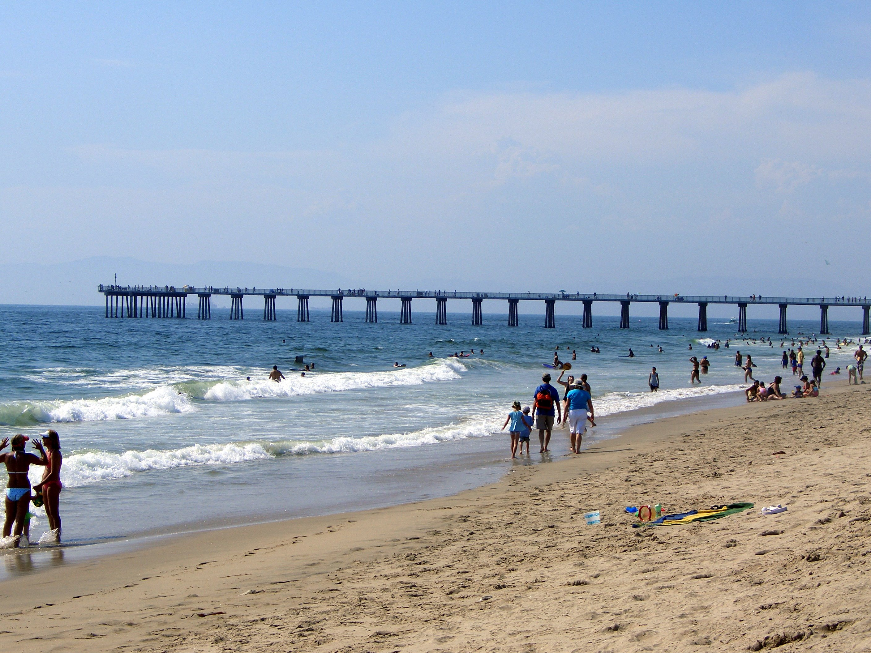 Typical Hermosa Beach on a summer day taken July of 2006 Photographed and uploaded by user Estrategy